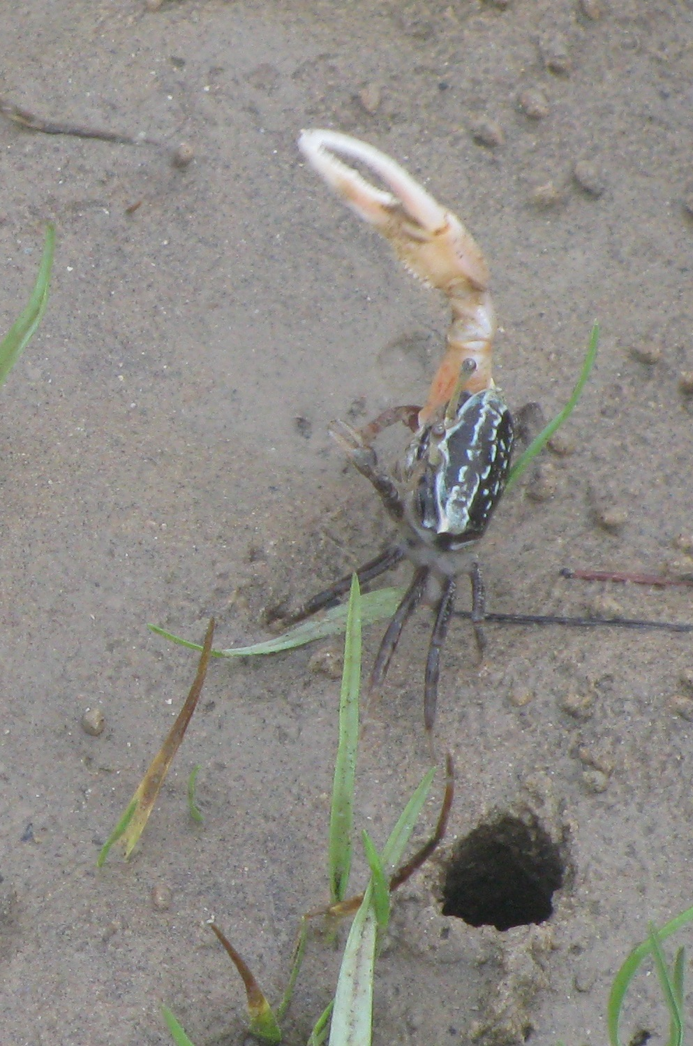 Uca annulipes taken at Talsari